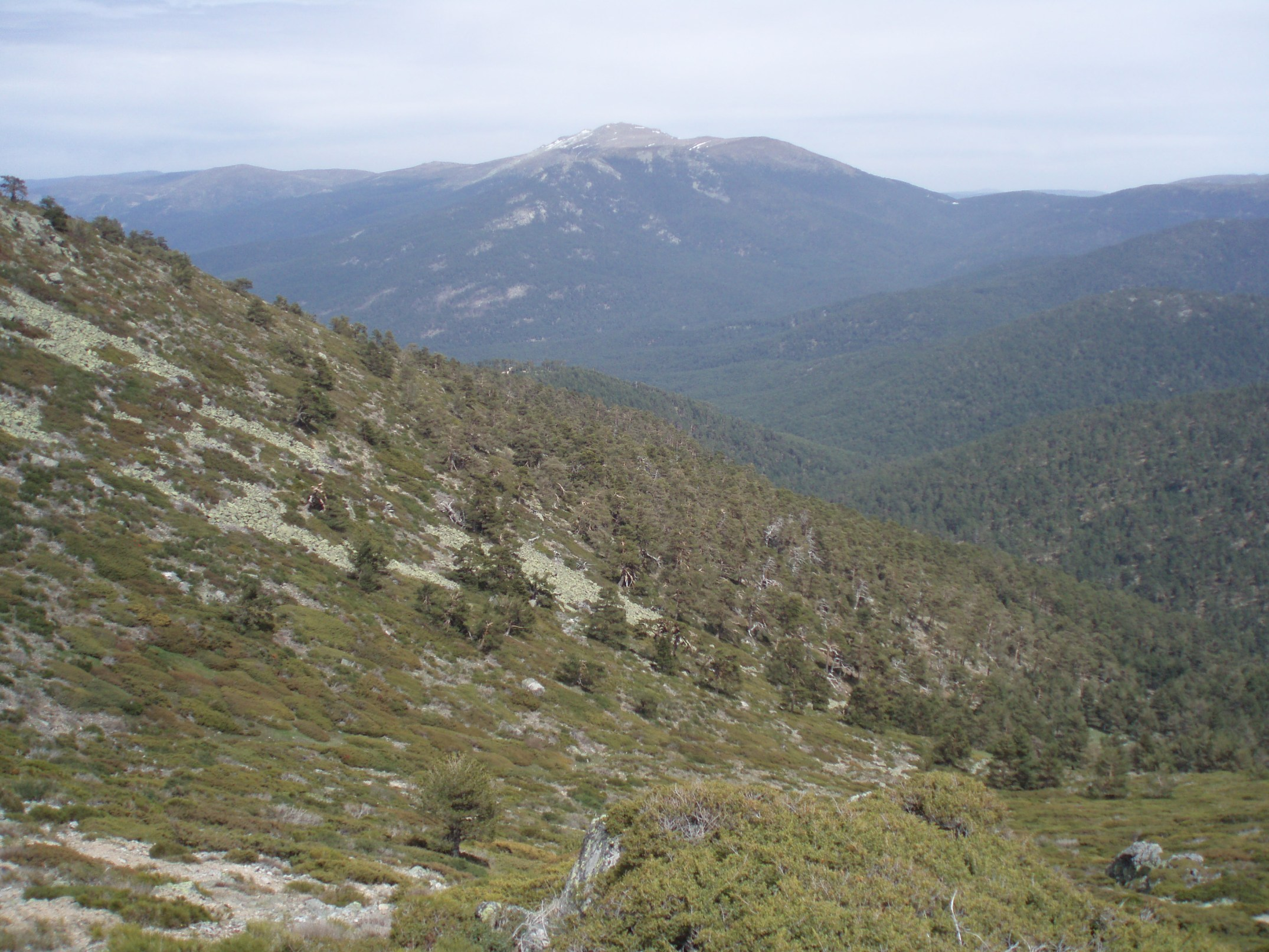 Peñalara Peak and Valsaín Valley (Guadarrama mountain range, central Spain).